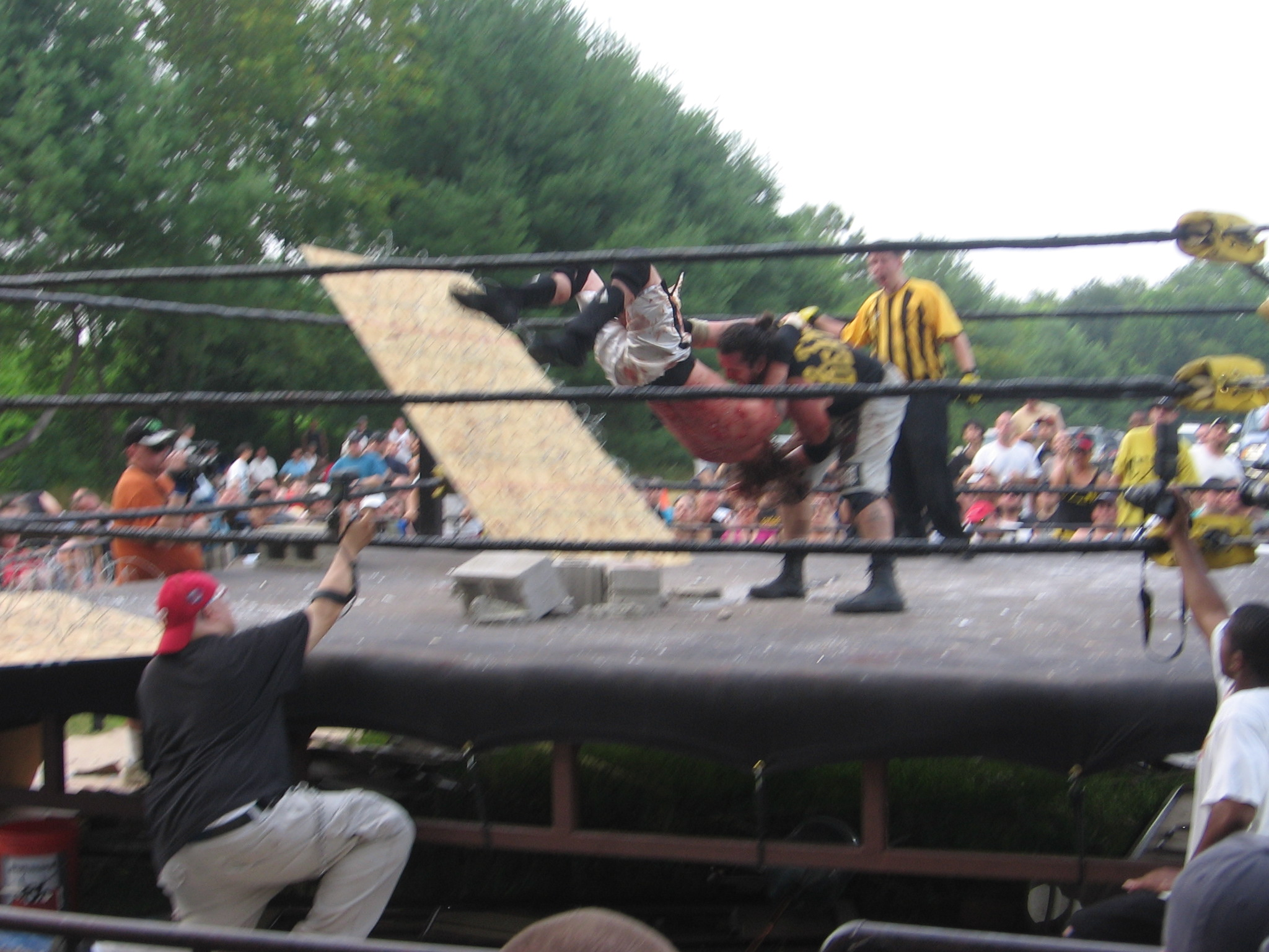 Masada body slamming Scotty Vortekz onto cinderblocks